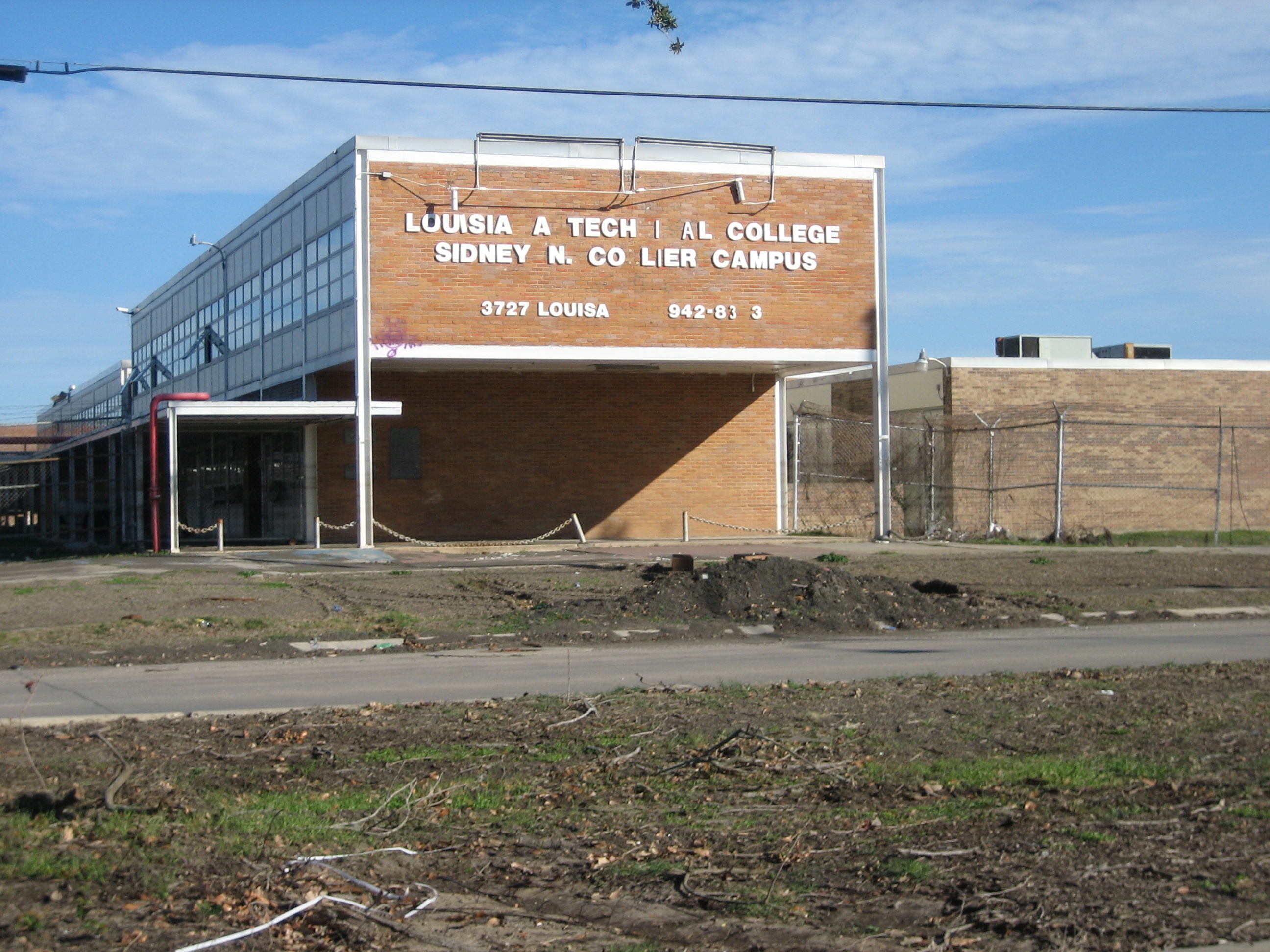 New Orleans after Hurricane Katrina: Damaged Louisiana Technical College building, formerly flooded section of Upper 9th Ward